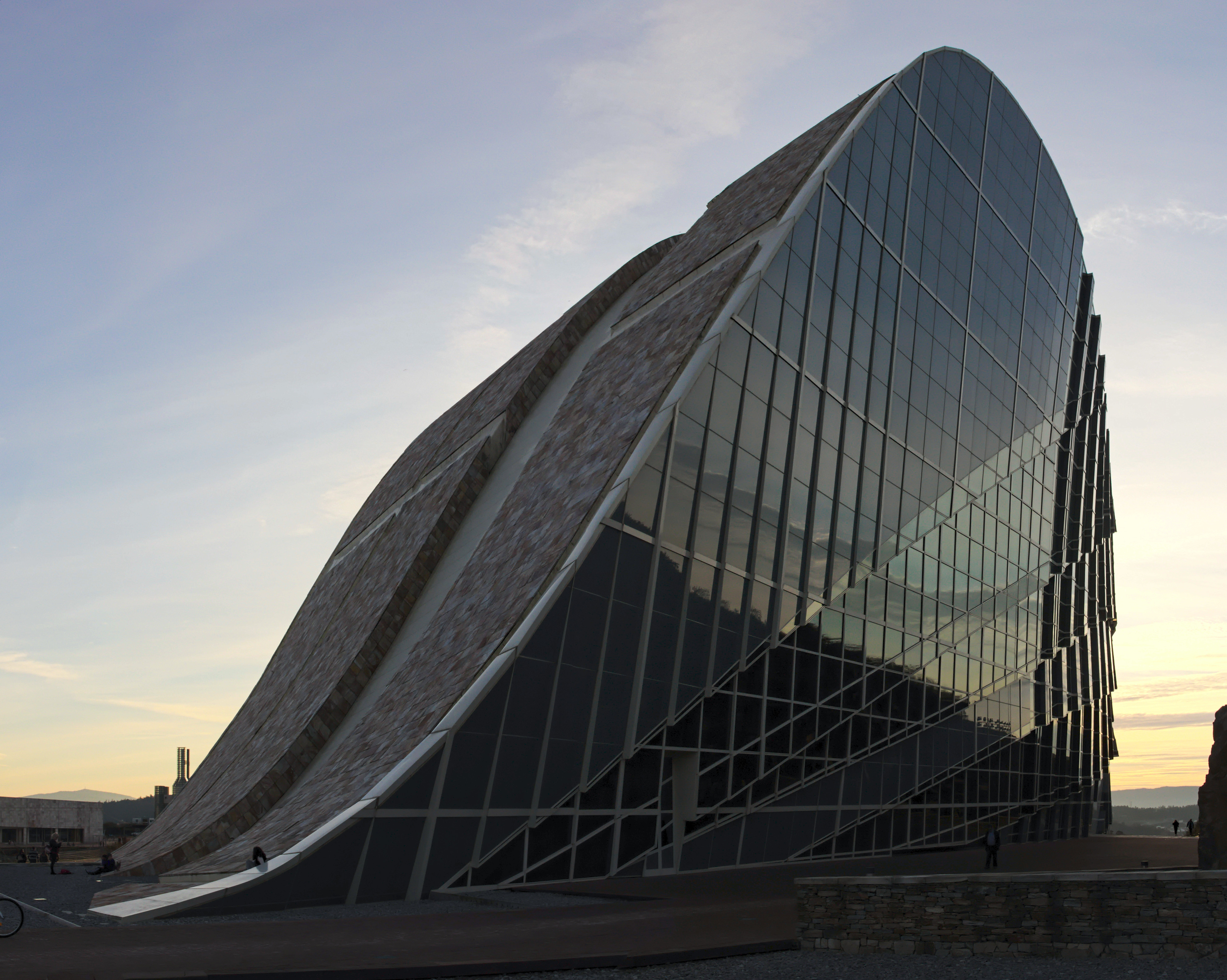 Museum Centre Gaiás, in the City of Culture ("Cidade da Cultura") in Santiago de Compostela, Galicia, Spain.